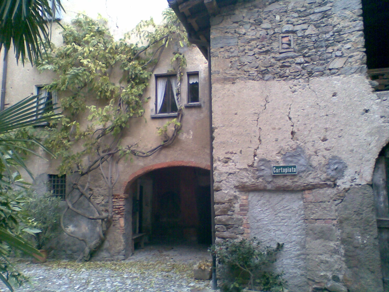 Typical house and yard